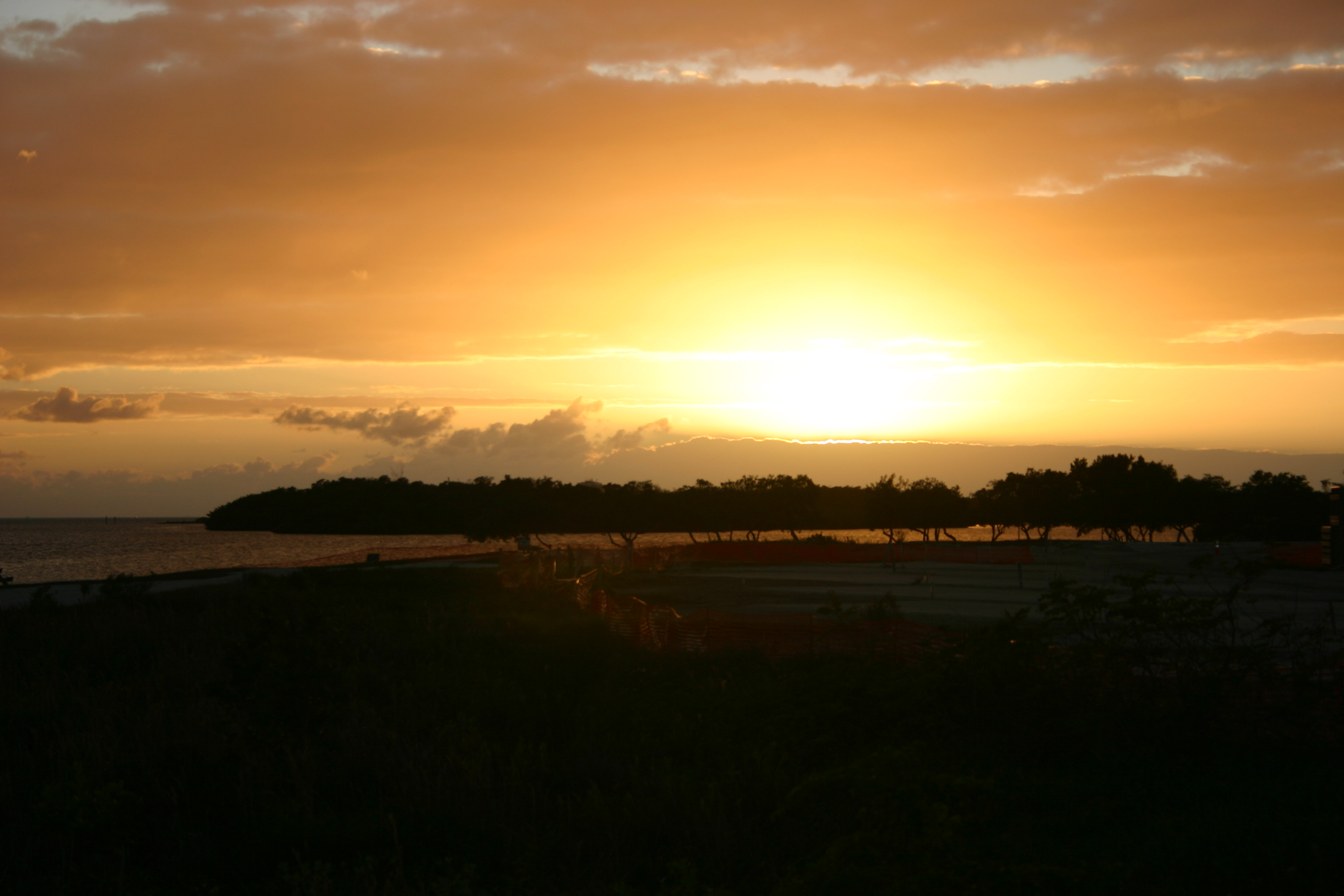 Sun dawn.